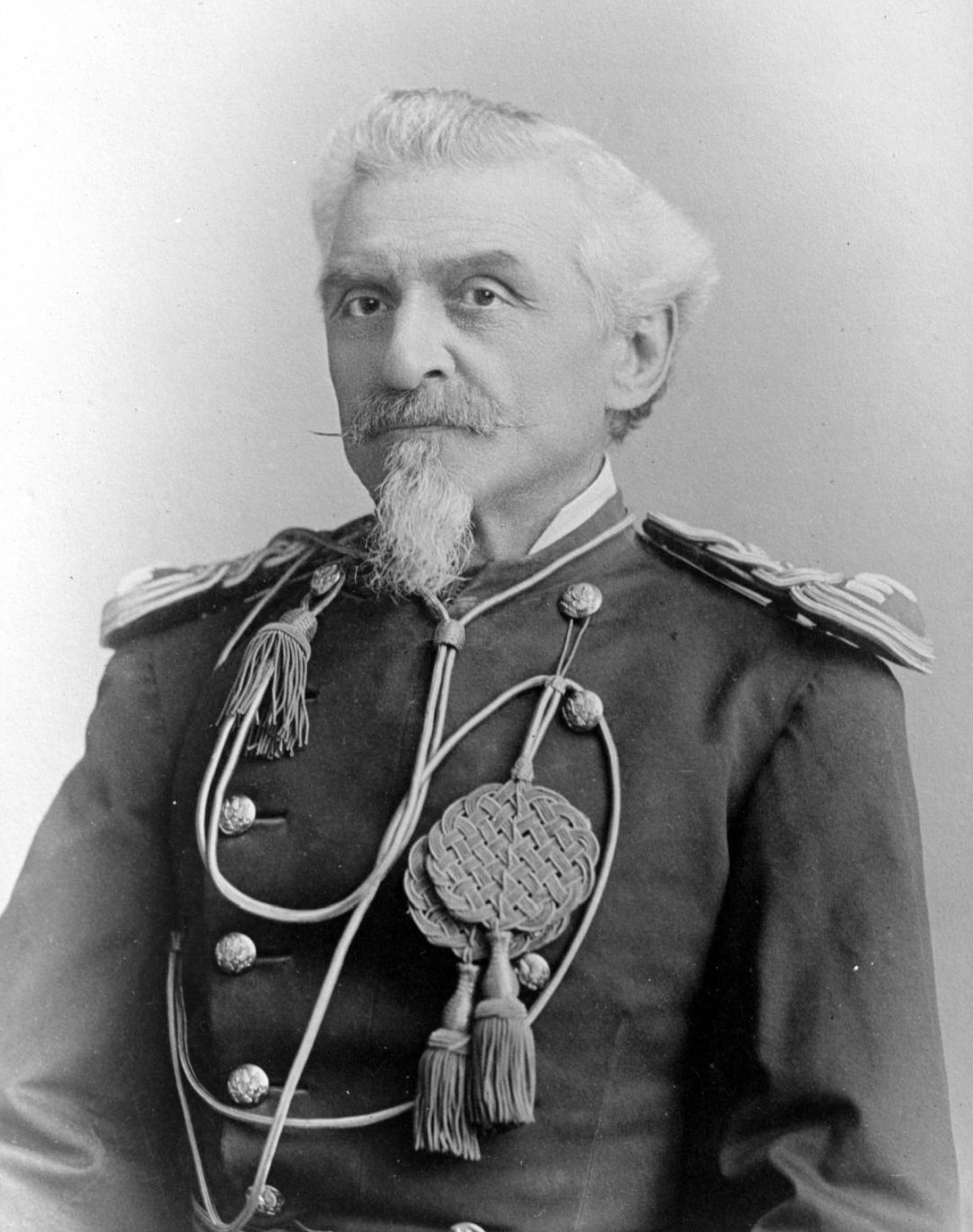 Captain Charles DeRudio, 7th Cavalry Seventh Cavalry, in uniform.